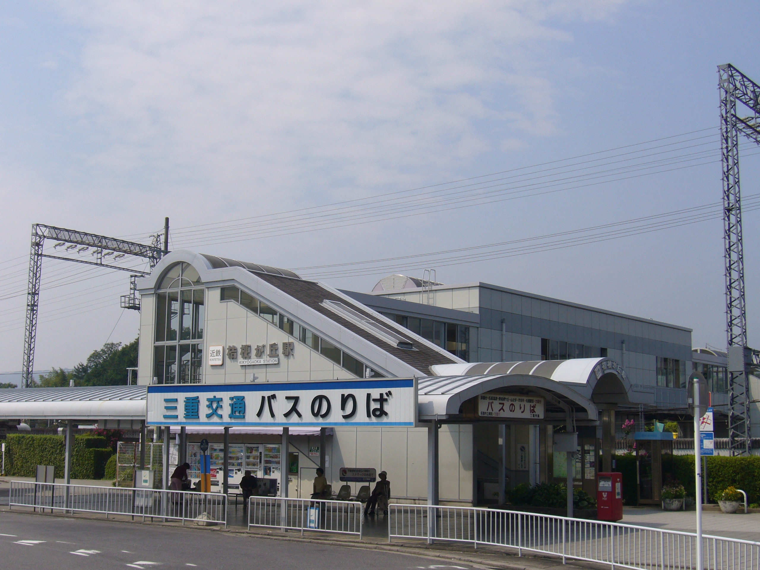 Kintetsu Osaka Line Kikyogaoka station south entrance